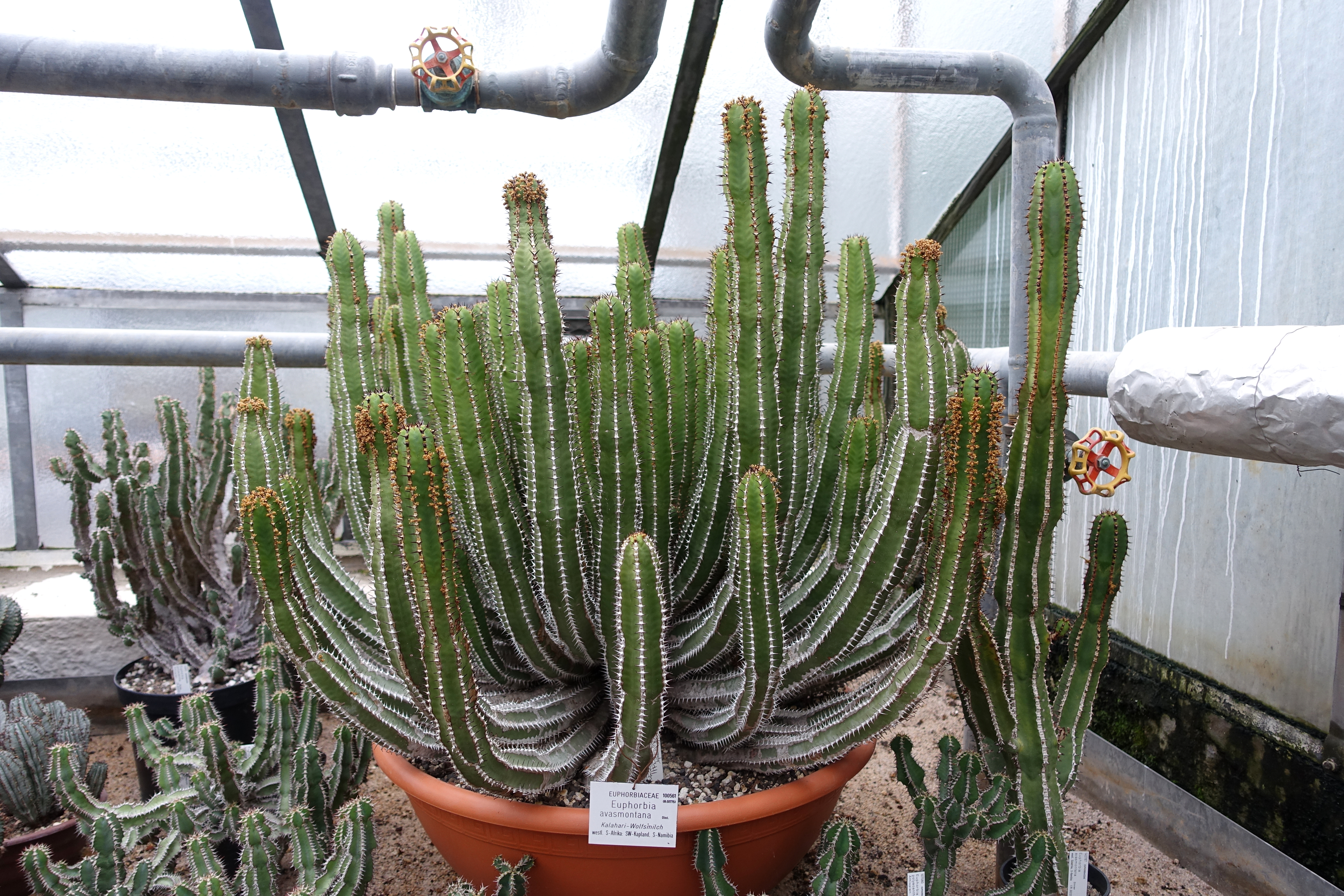 Botanical specimen in the Botanischer Garten - Heidelberg, Germany.